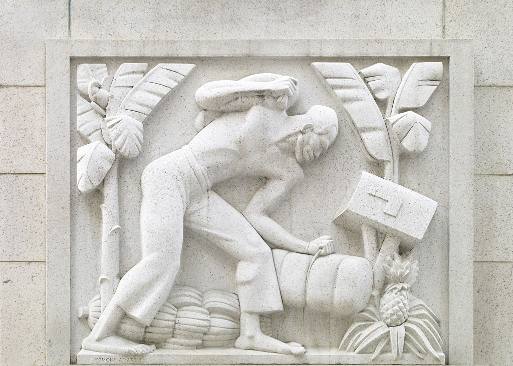 Photo by Carol M. Highsmith (working for USA GSA) donated to the public domain of artwork by Amateis, Edmond, 1897-1981, sculptor. Title: Mail Delivery (South - Cane Cutter - One of Four) as noted by the Smithsonian SIRIS database. "Remarks: Relief was created as part of the Works Progress Administration." Carol M. Highsmith (1946–) Alternative names Birth name: Carol Louise McKinney Artist name: Carol M. HighsmithCarol McKinney HighsmithDescriptionAmerican photographer and architectural photographerDate of birth 18 May 1946 Location of birth Leaksville, North Carolina Work period1981-Work location United States of America Authority control : Q5044454 VIAF: 84615840 ISNI: 0000 0001 2141 8199 ULAN: 500251255 LCCN: n88121701 NAID: 10571735 WorldCat creator QS:P170,Q5044454